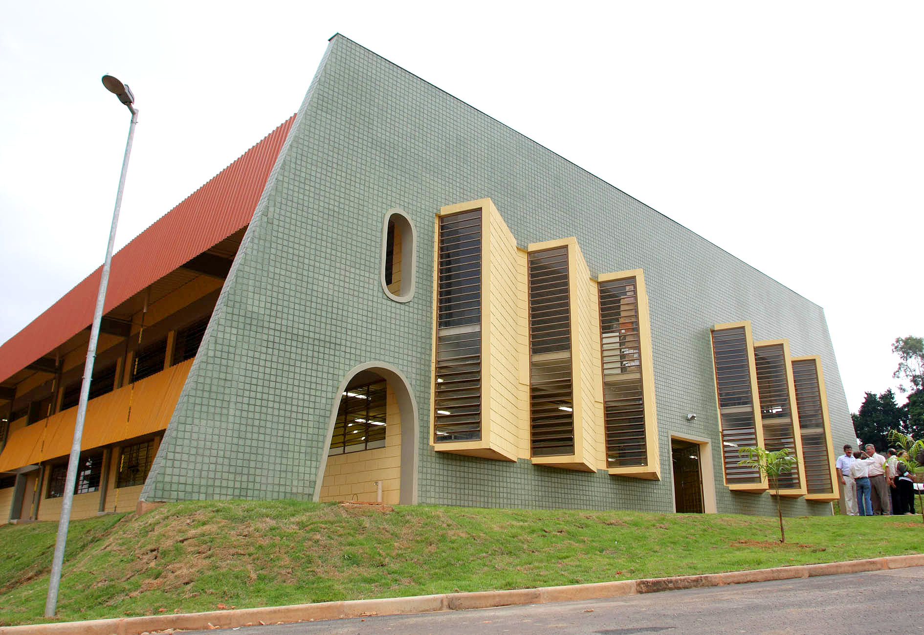 Fatec Americana